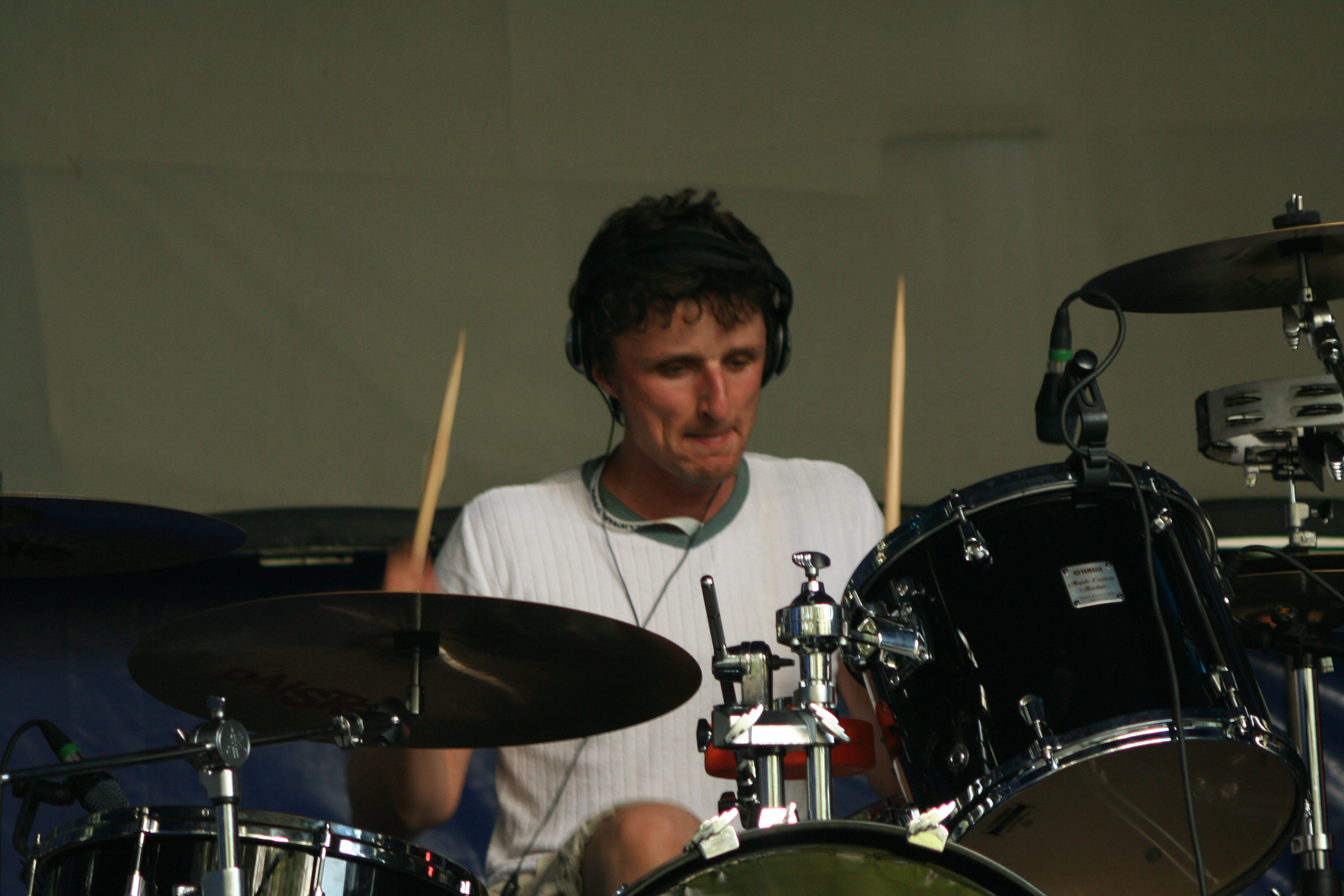 Cool Kids of Death, Off Festival, Mysłowice